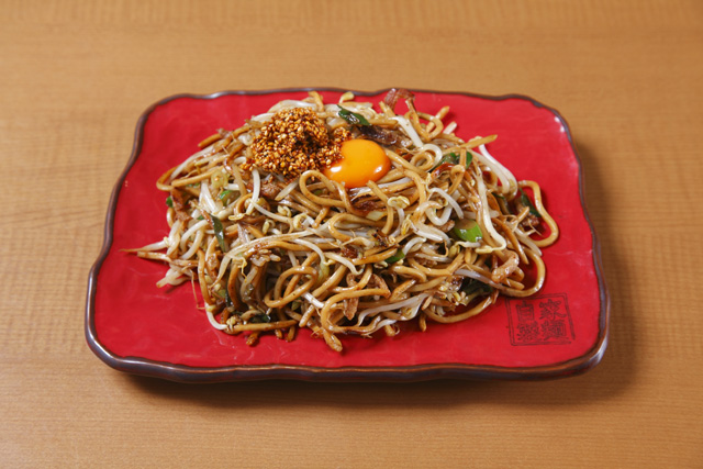 yakisoba